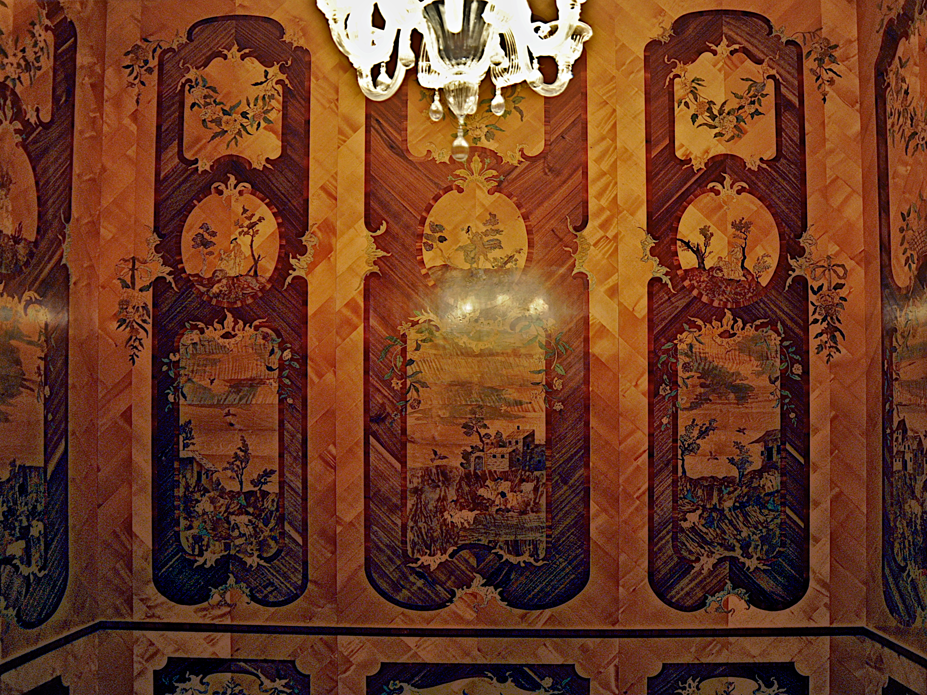 View into Spindler cabinet at Schloss Fantaisie in Eckersdorf / Germany. Intarsia made by borthers Spindler (duplicate - original cabinet can be found in Bavarian National Museum